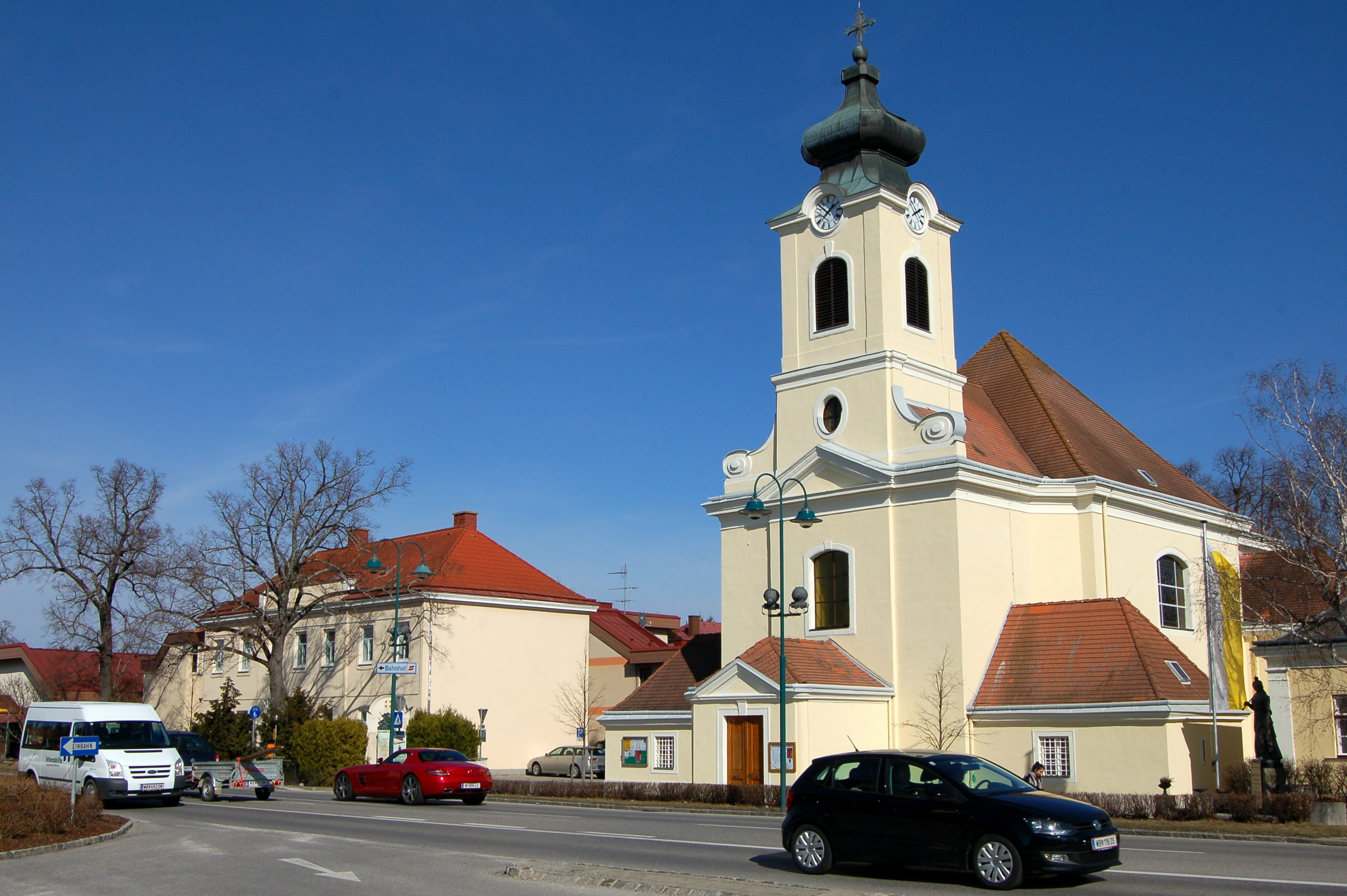 Main square of Theresienfeld, Lower Austria, with Holy Cross parish church and municipal office